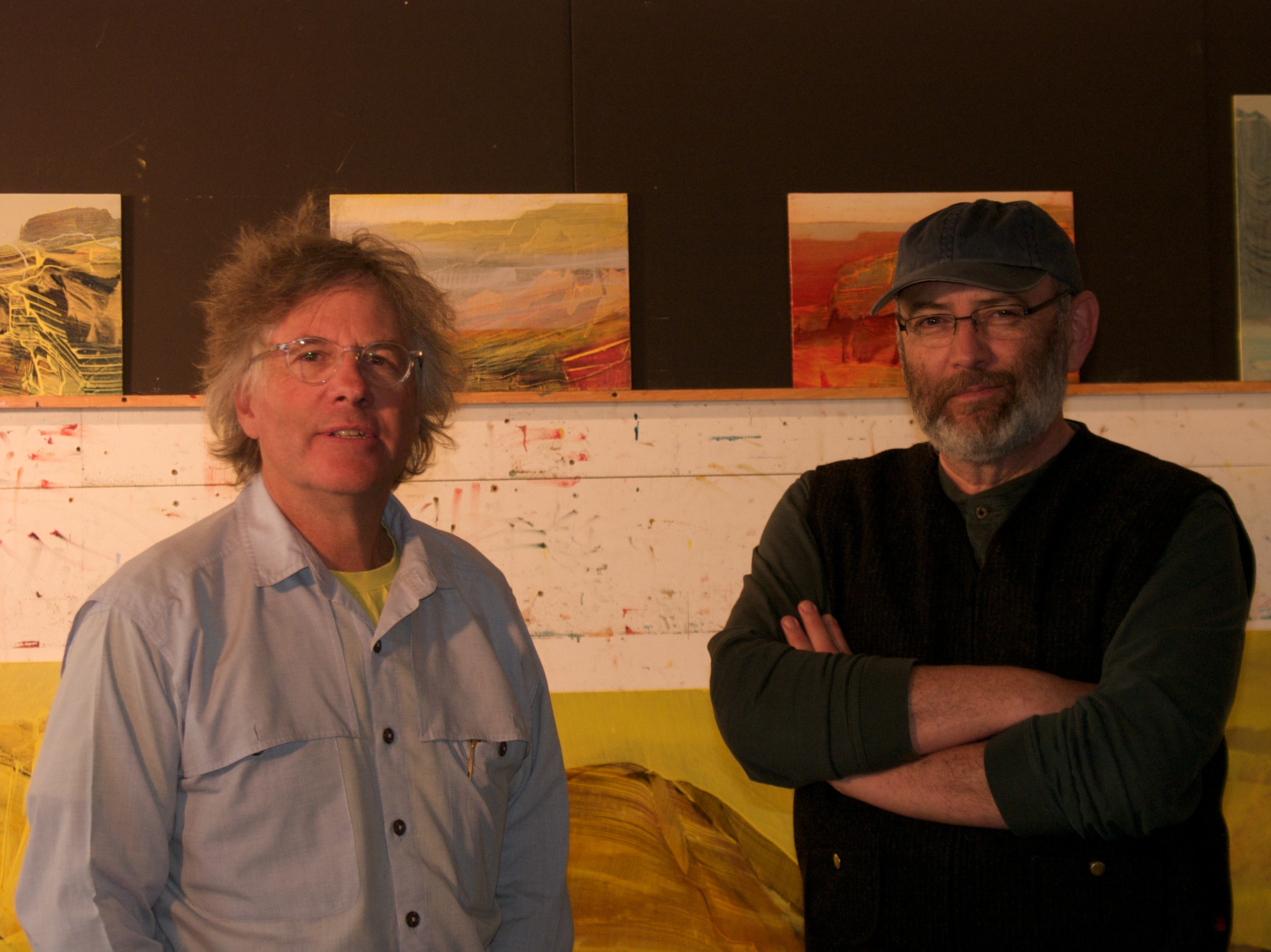 Spencer B Beebe of Ecotrust (left) and artist James Lavadour (Walla Walla)